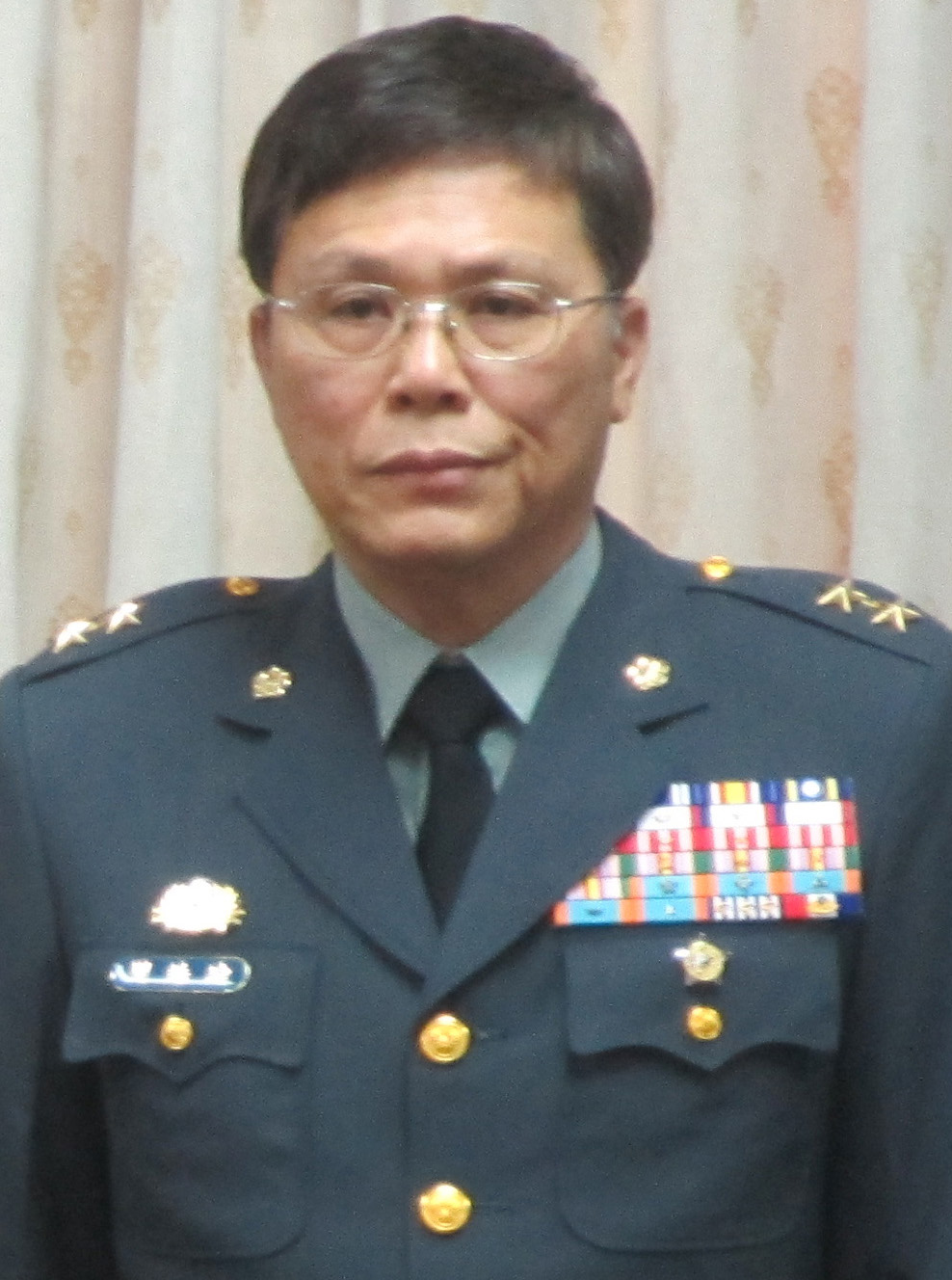 Lieutenant General Zhou Hao-yu, Deputy Chief of Staff of the General Staff for Operations and Plans (G-3)